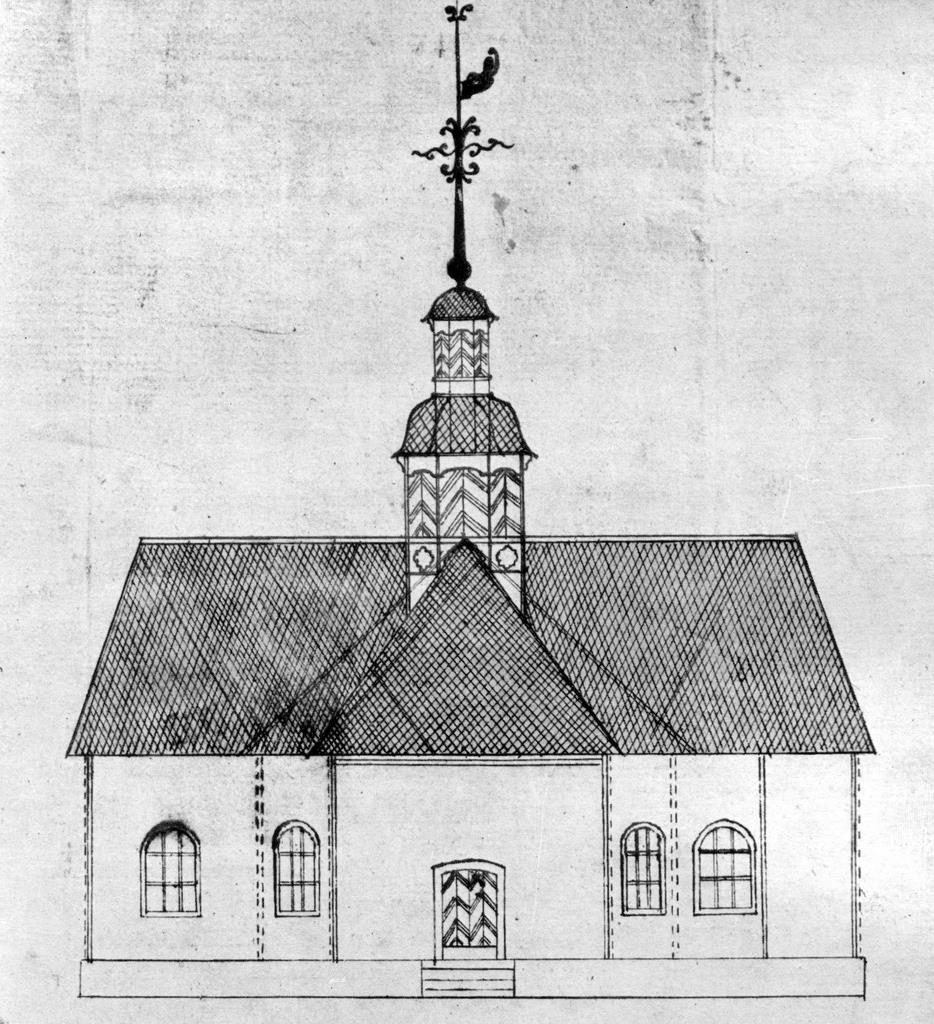 The elevation drawing of Merijärvi church by Simon Silvén. The church was built 1781.